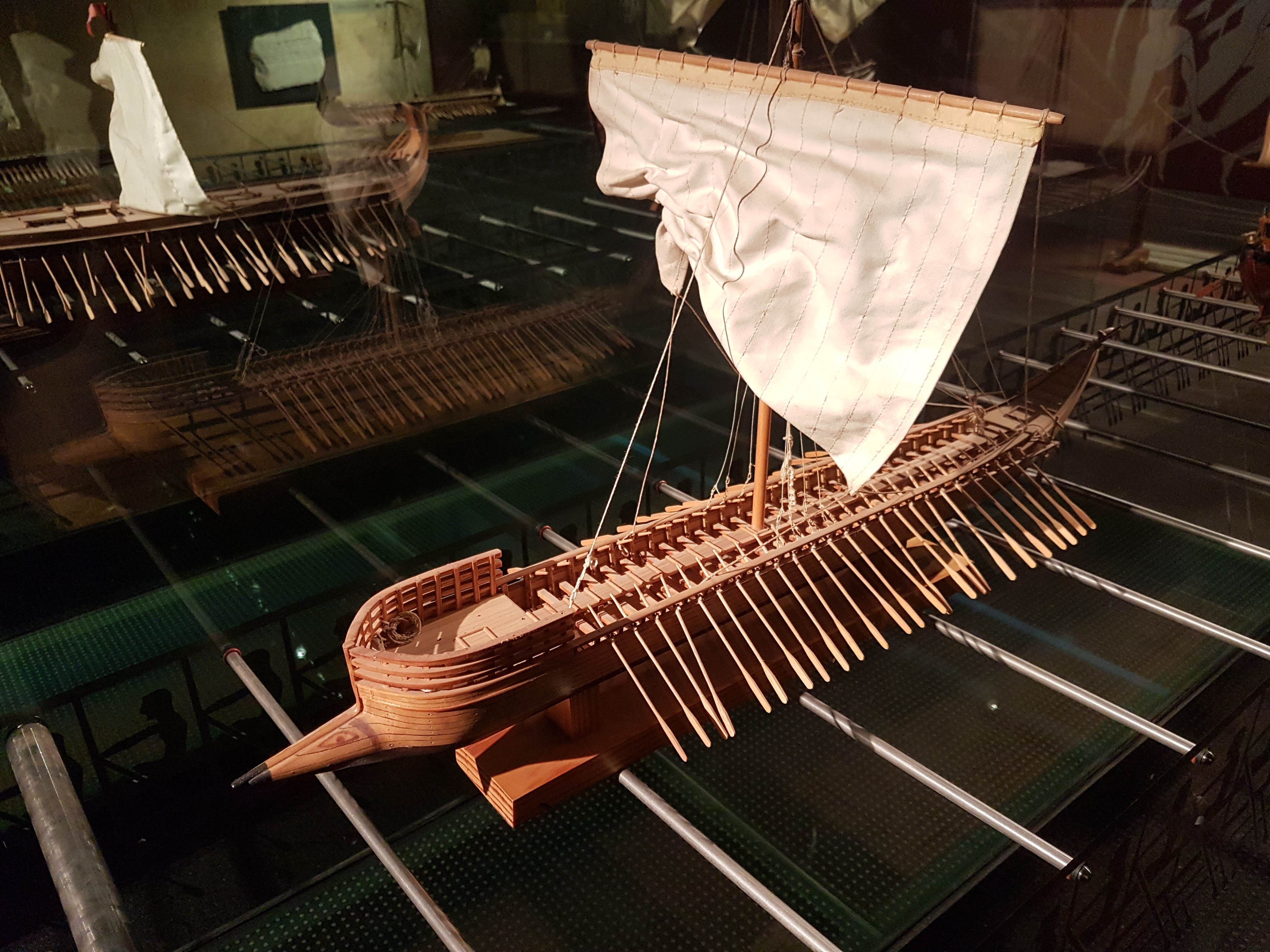 Penteconter, 5th century BC, Greece (model). Thessaloniki Technology Museum